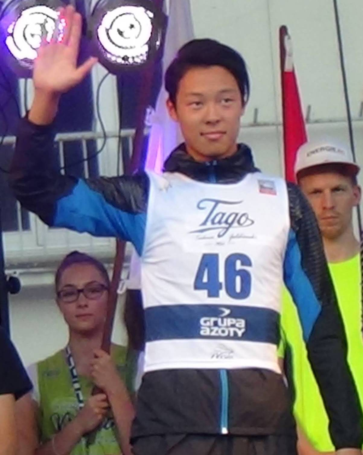 Ryōyū Kobayashi